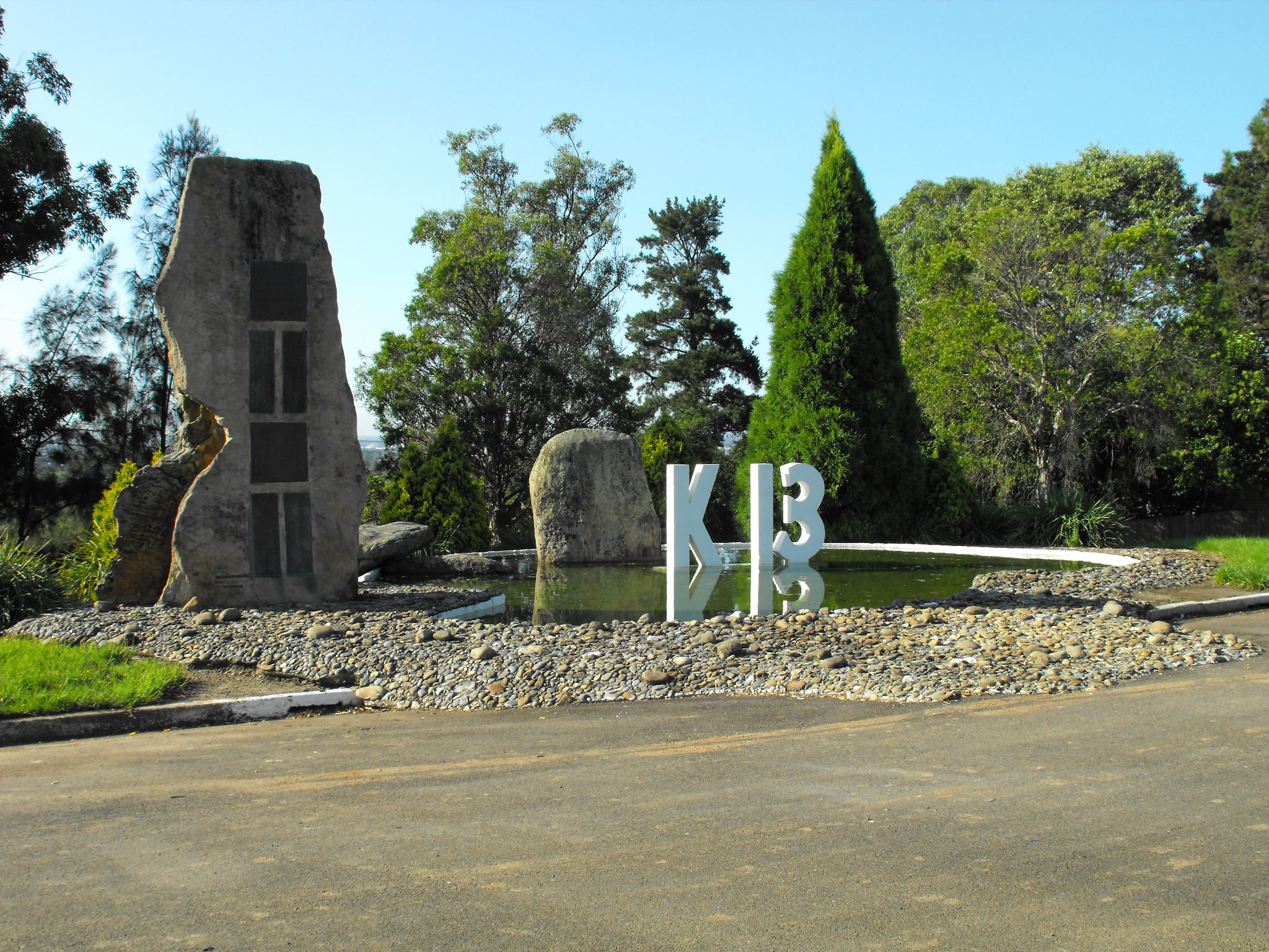 Memorial for the British submarine K13, at Carlingford, New South Wales